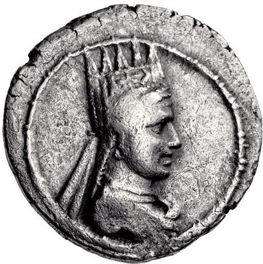 The portrait of Artavasdes II of Armenia on the obverse of a drachm, Artaxata mint.